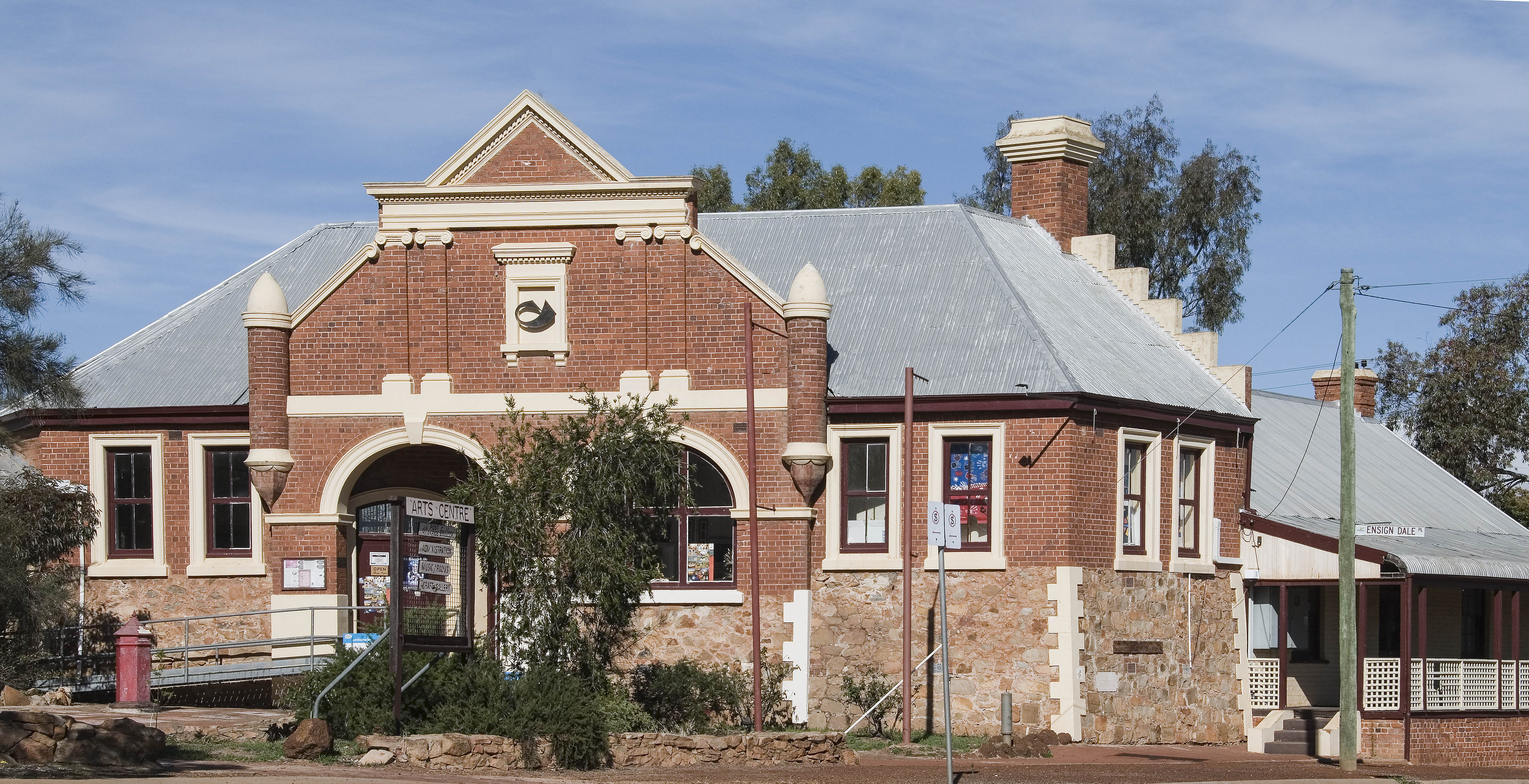 Northam former post office by G temple Poole